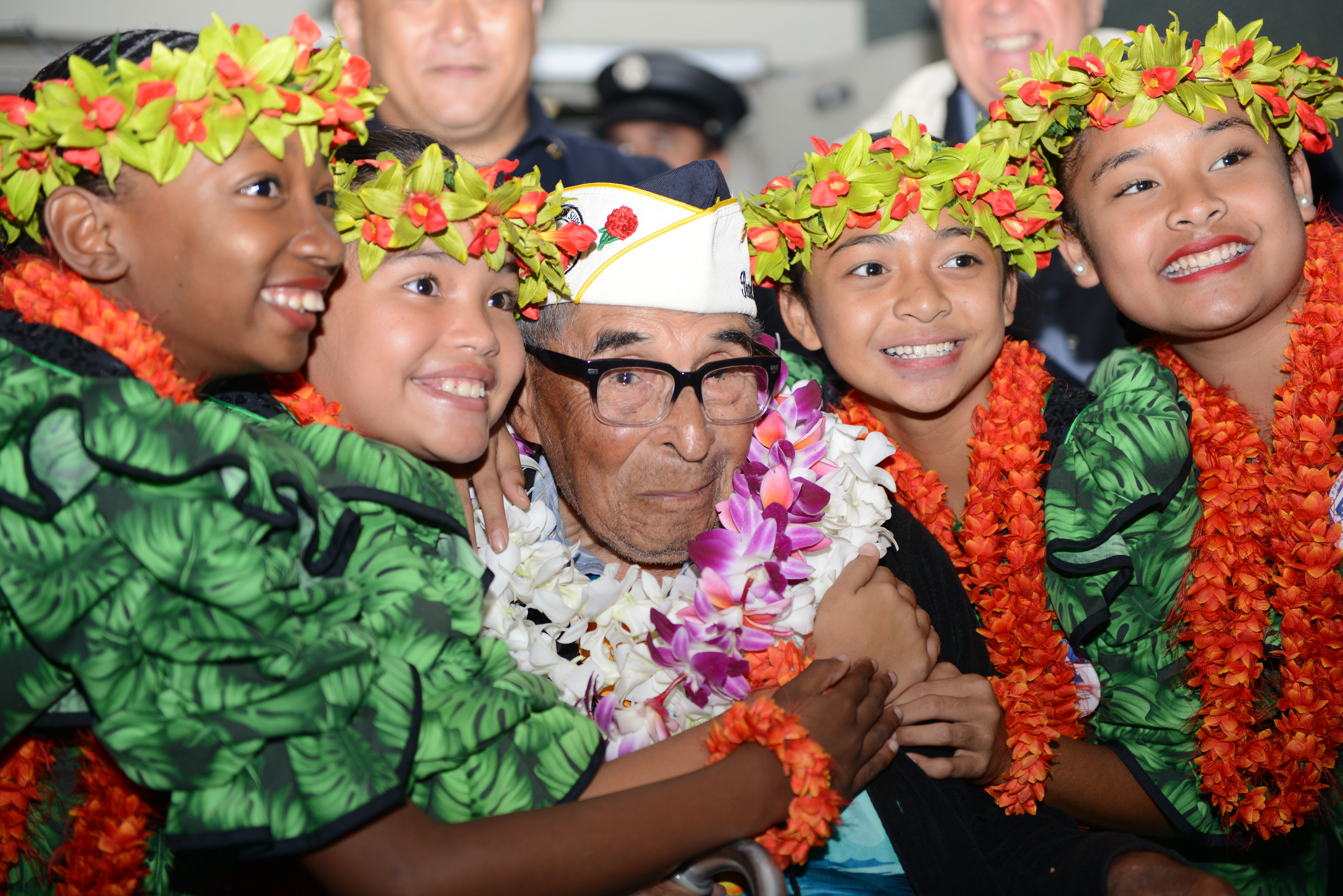 HONOLULU (Dec. 3, 2016) Ray Chavez, a 104-year-old Navy veteran and the oldest surviving Pearl Harbor veteran, poses for a photo after being greeted by several military members and personnel at the Honolulu International Airport, Dec. 3, 2016. More than 100 World War II veterans, including Pearl Harbor survivors, arrived to Honolulu to participate in the remembrance events throughout the week to honor the courage and sacrifices of those who served during Dec. 7, 1941, and throughout the Pacific Theater. Dec. 7, 2016, marks the 75th anniversary of the attacks on Pearl Harbor and Oahu. As a Pacific nation, the U.S. is committed to continue its responsibility of protecting the Pacific sea-lanes, advancing international ideals and relationships, well as delivering security, influence, and responsiveness in the region. (U.S. Coast Guard photo by Petty Officer 2nd Class Tara Molle/Released)161203-G-XD768-010 Join the conversation: navylive.dodlive.mil